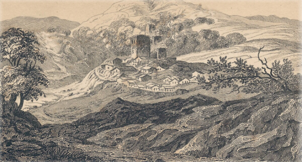 Sketch of the Battle of Sabugal, 1811.